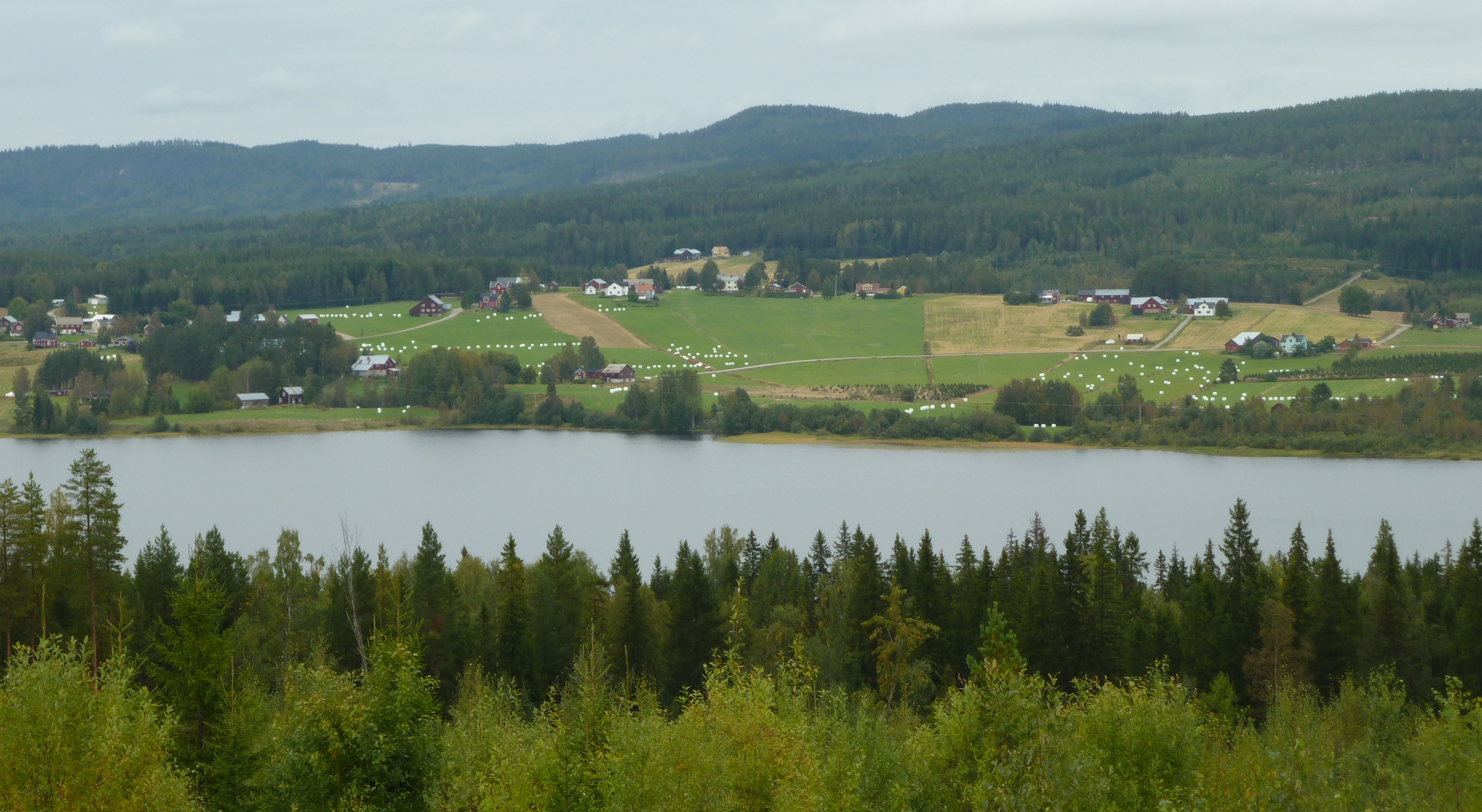 Anundsjösjön, Ångermanland, Sweden